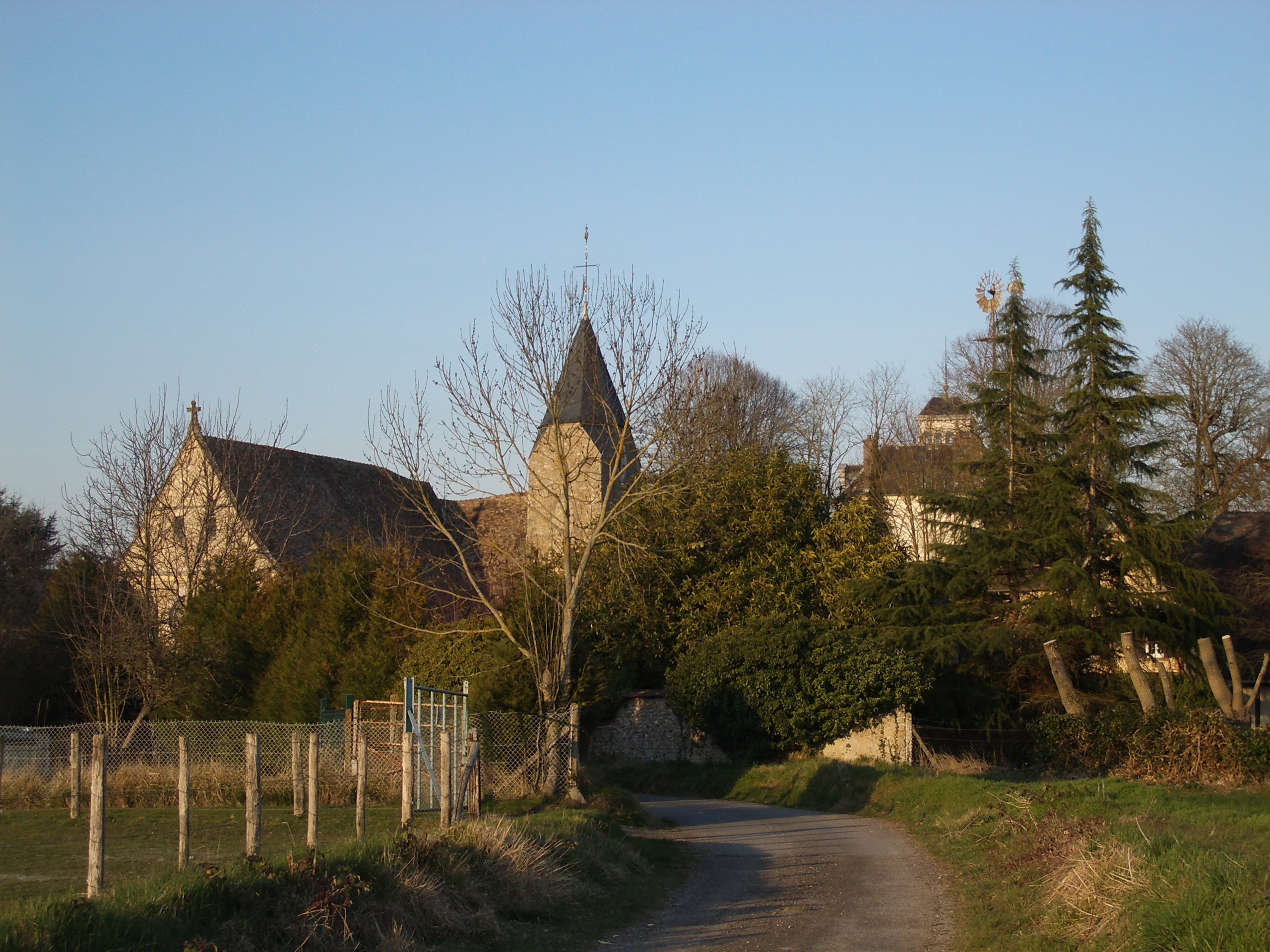 Chambray (Eure)